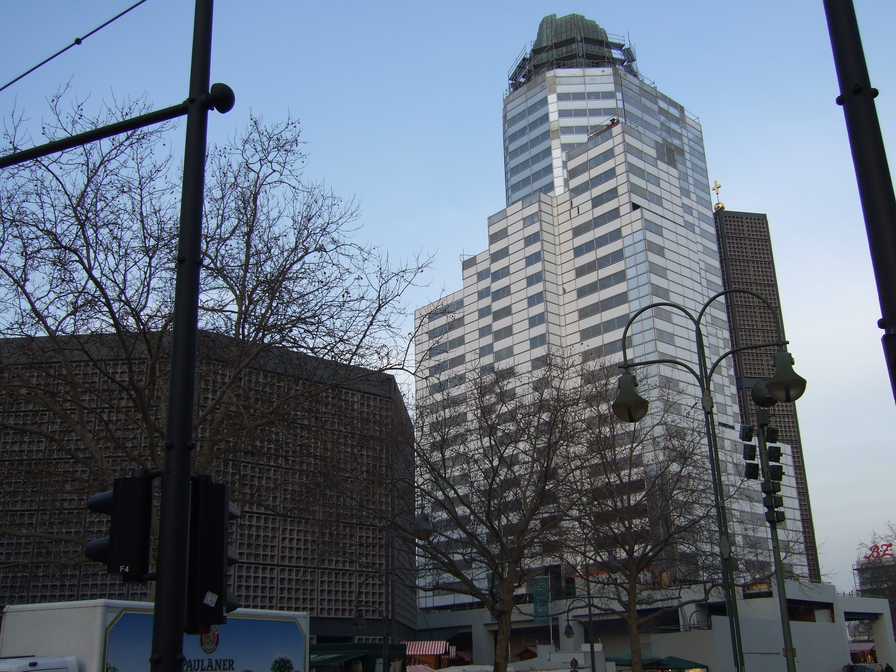 The "old" part of the Kaiser Wilhelm Gedächtniskirche in Berlin covered by a huge structure during restoration 2011